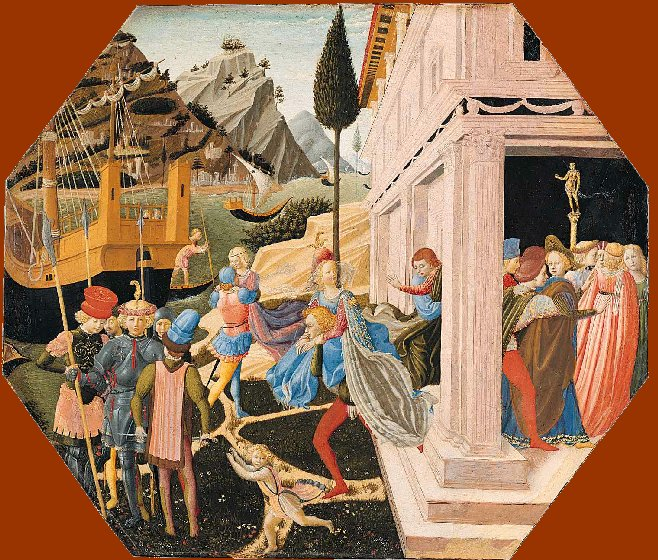 The abduction of Helen